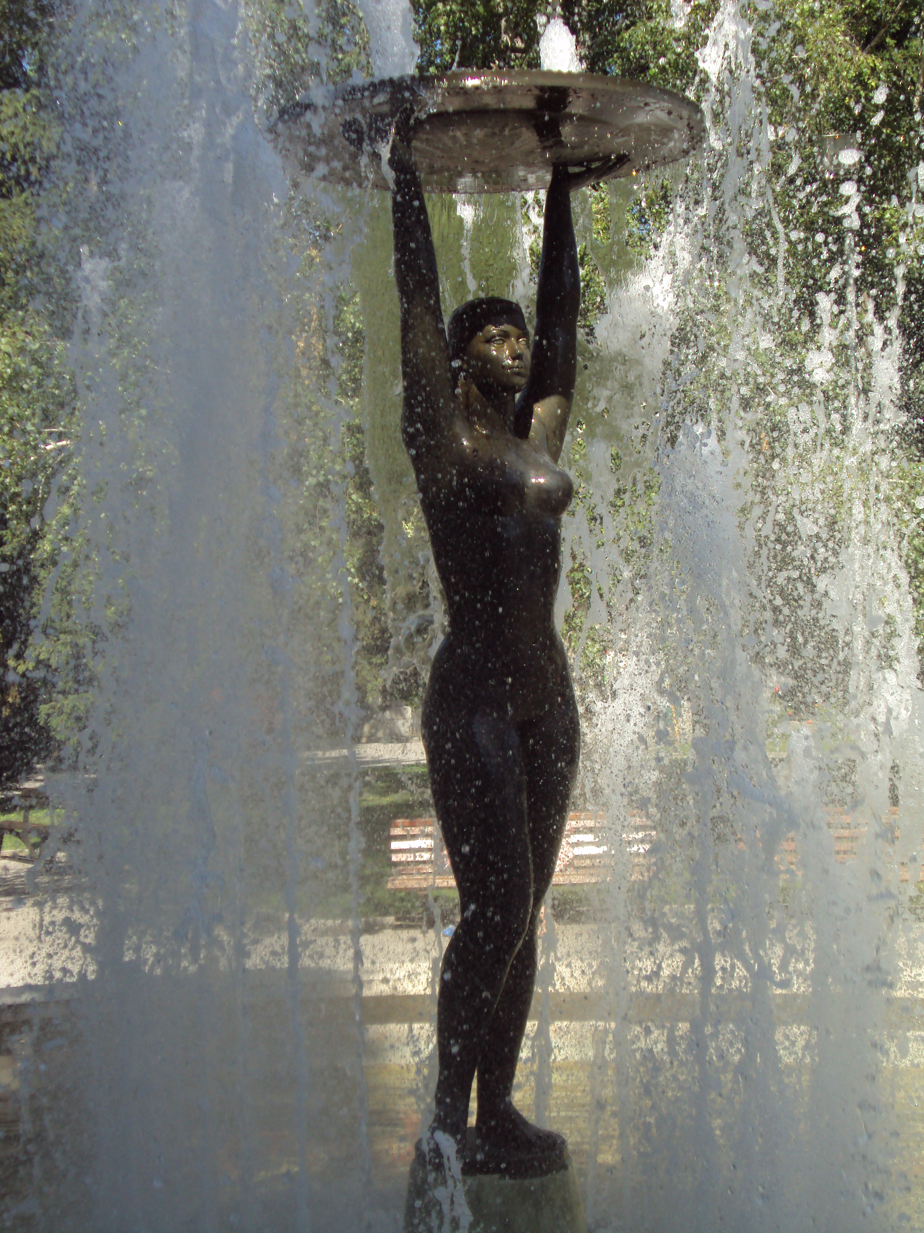 Spring Momina salza in Hisarya, Bulgaria